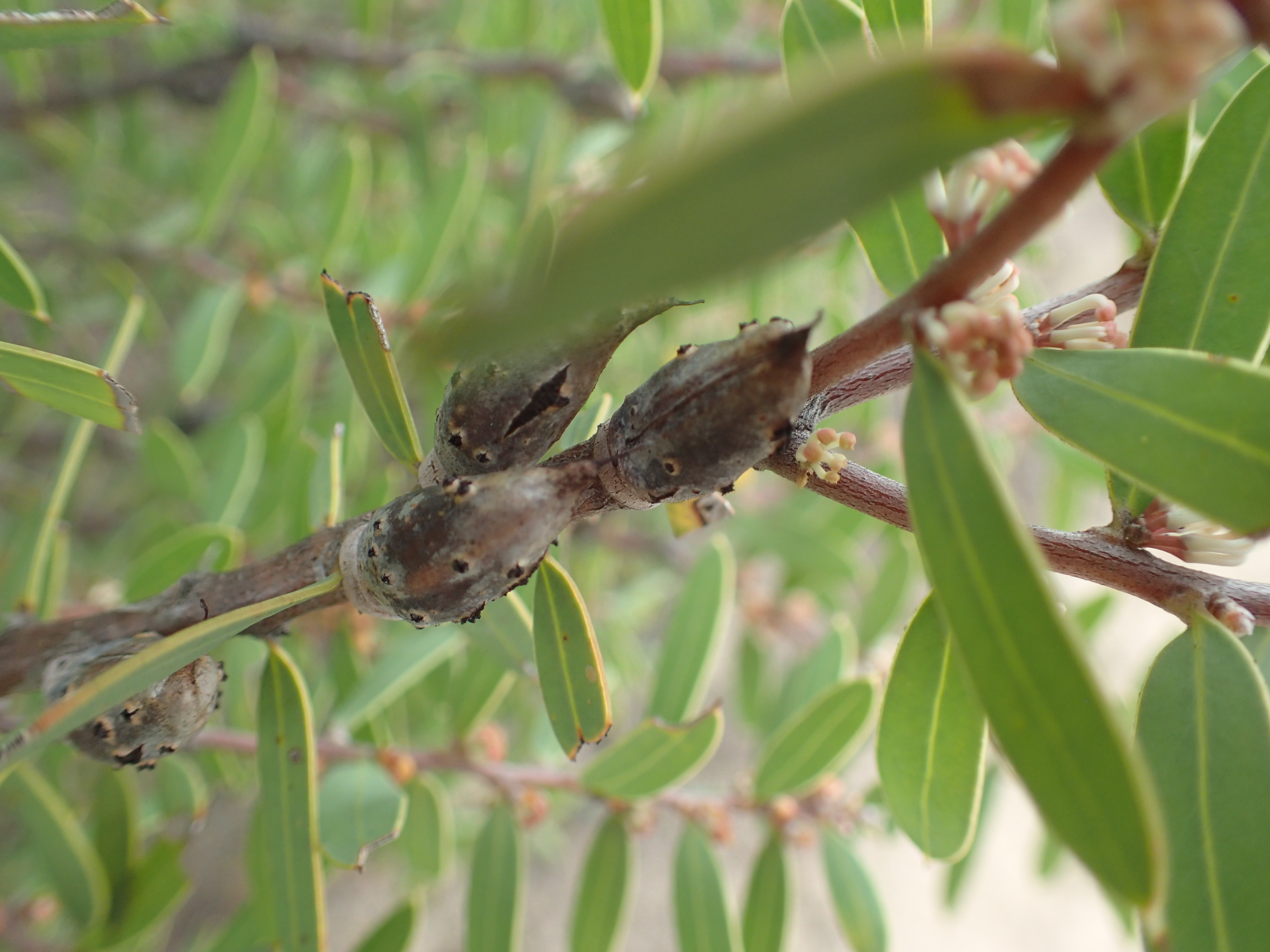 Fruit of Hakea marginata in the Lake Wannamal Nature Reserve near Mogumber